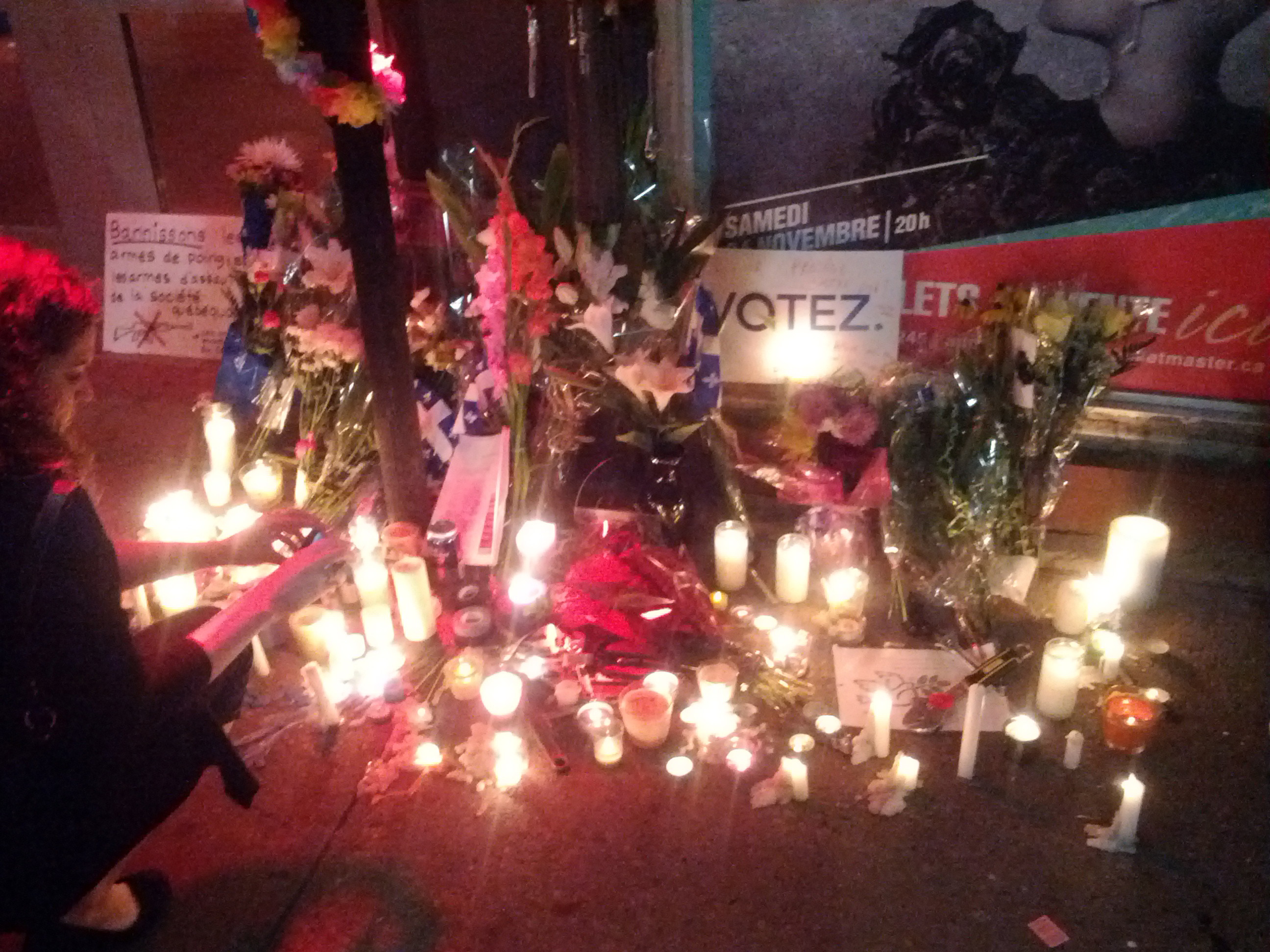 5 September 2012 candlelight vigil for the victims of 4 September 2012 shooting at the Metropolis in Montreal, Quebec, Canada. Vigil and temporary makeshift memorial in front of Metropolis, where the shooting occured on Election night while prime minister elect Pauline Marois of the Parti québécois was delivering her victory speech.